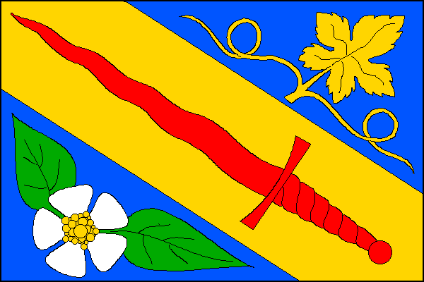 Municipal flag of Michalovice village, Litoměřice District, Czech Republic.